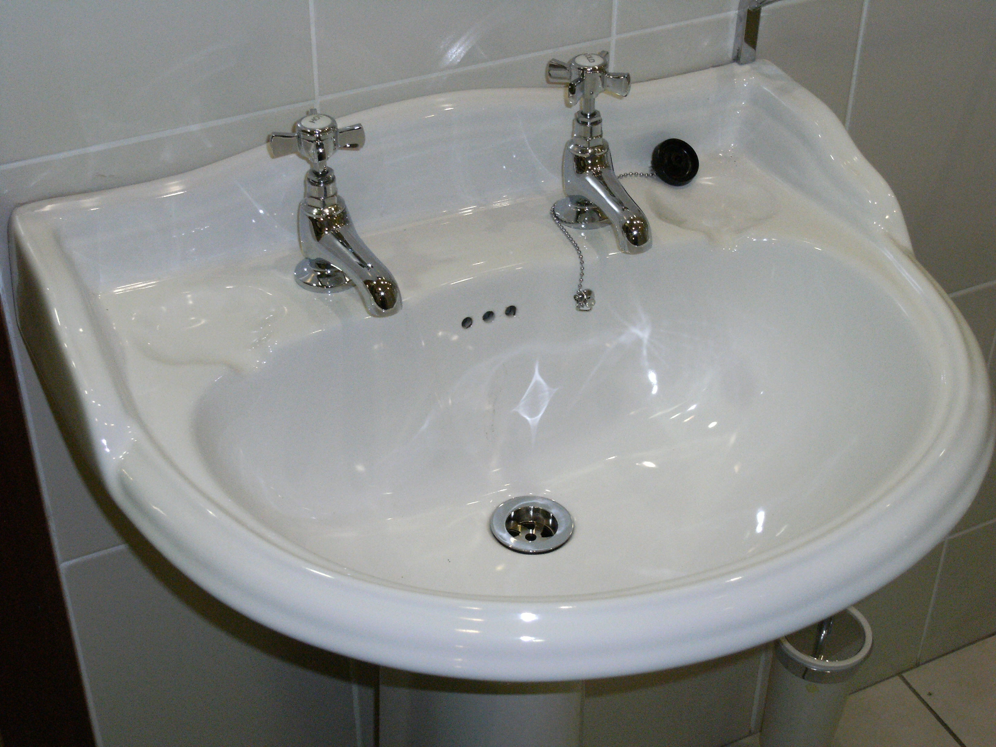 Sink - Bathroom - White with enamel with two silver-colored hot and cold faucets and two built-in soap dishes / soap holders - bathroom basin